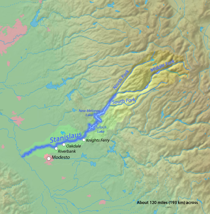 Map of the Stanislaus River, a major tributary of the San Joaquin River, in Northern California. The Stanislaus River drains a long, narrow area of the western Sierra Nevada and the northern part of the San Joaquin Valley.